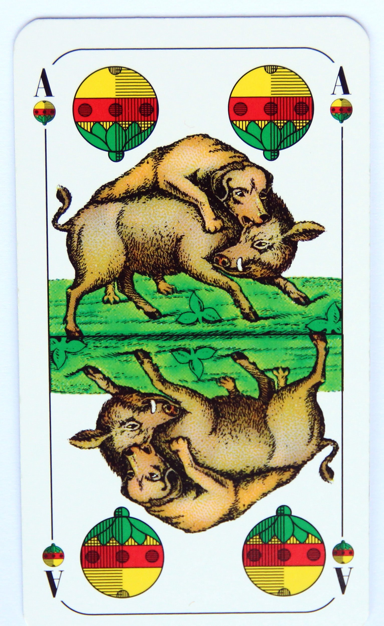 The Deuce (Ace) of Bells from a Bavarian-pattern pack